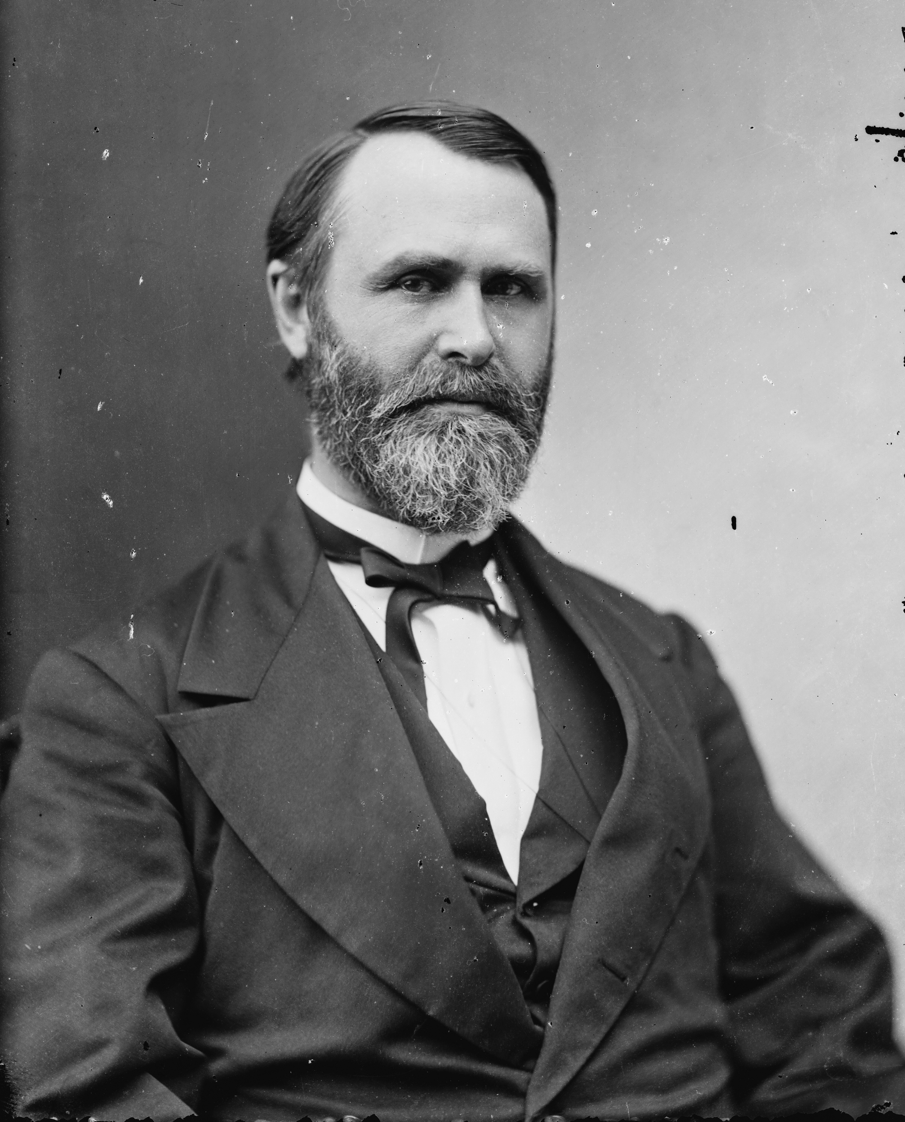 Cox, Jacob D. M.C. Ohio (Secty of Interior in Grant Adm.)